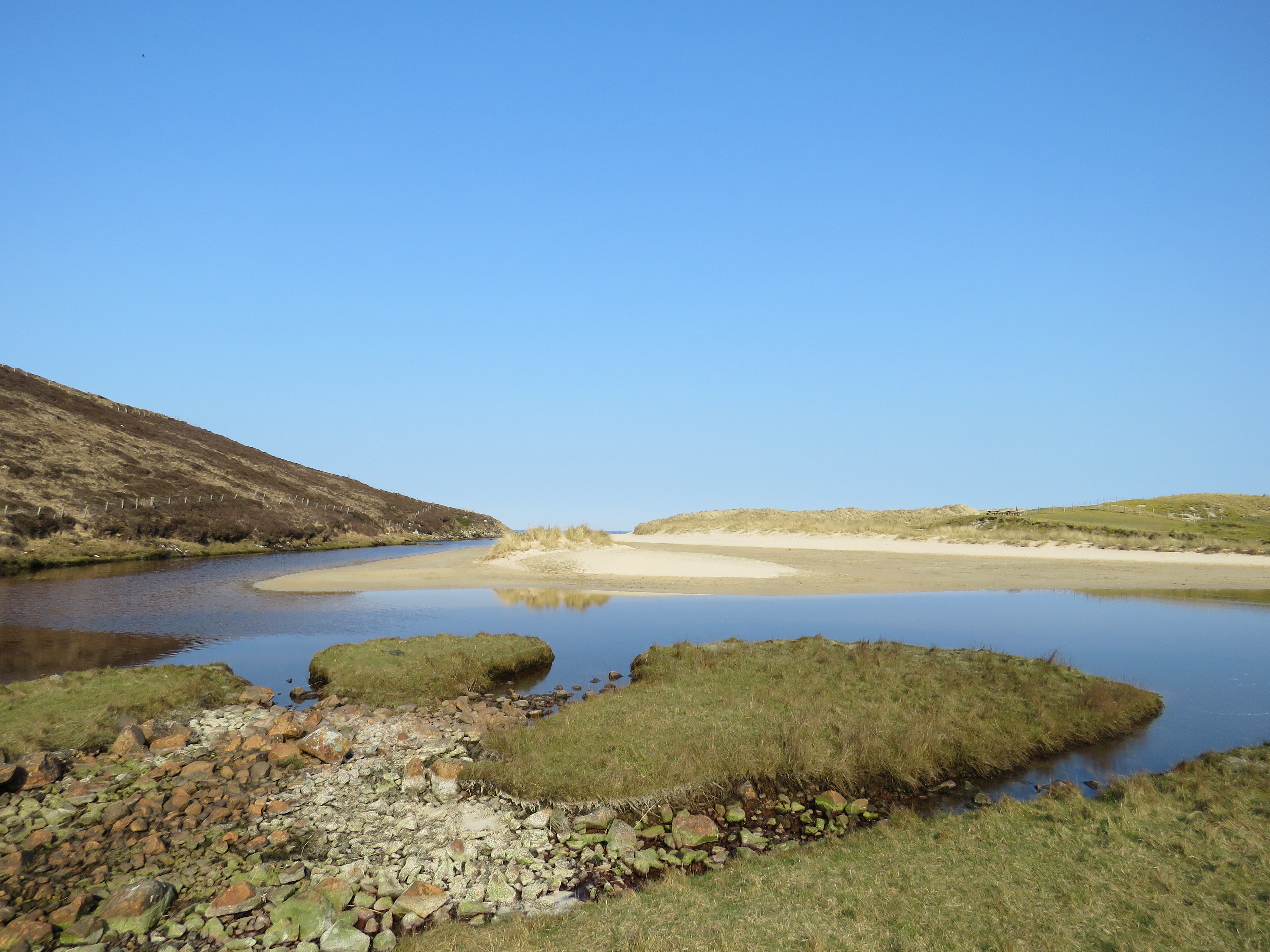 Traigh Mhor,Tolsta, Lewis, Scotland